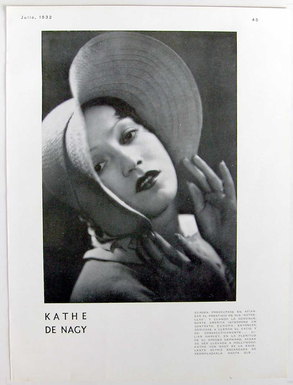 Publicity photo of Käthe von Nagy for Argentinean Magazine.